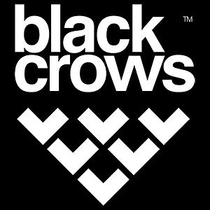 Logo Black Crows